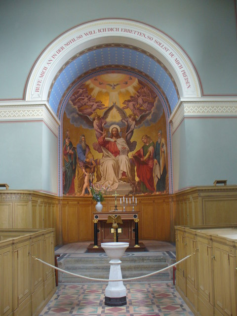 Sacrow - Heilandskirche (Church of the Redeemer)